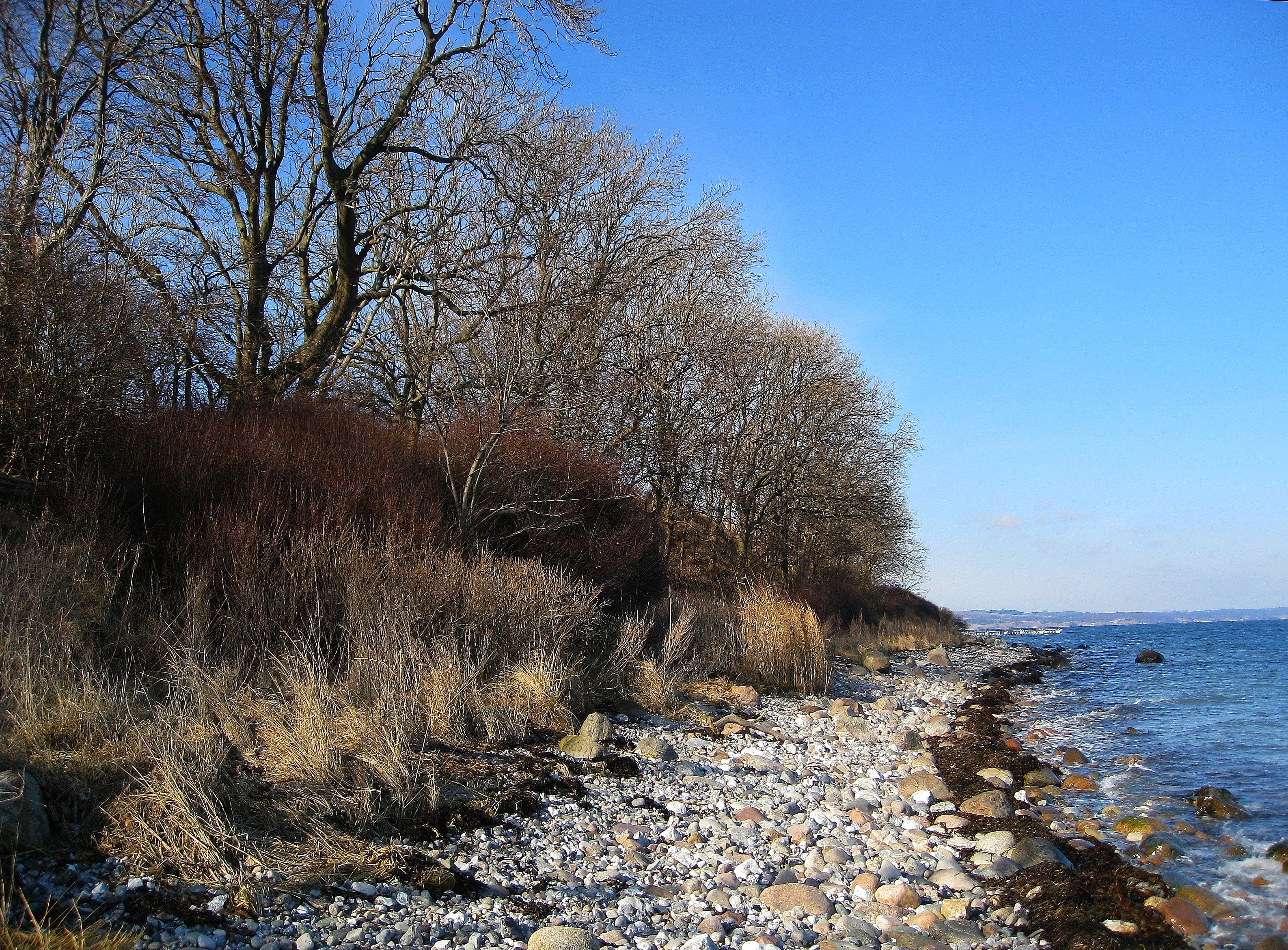 Esby Strand, Helgenæs. Fuglsø Vig i nord.